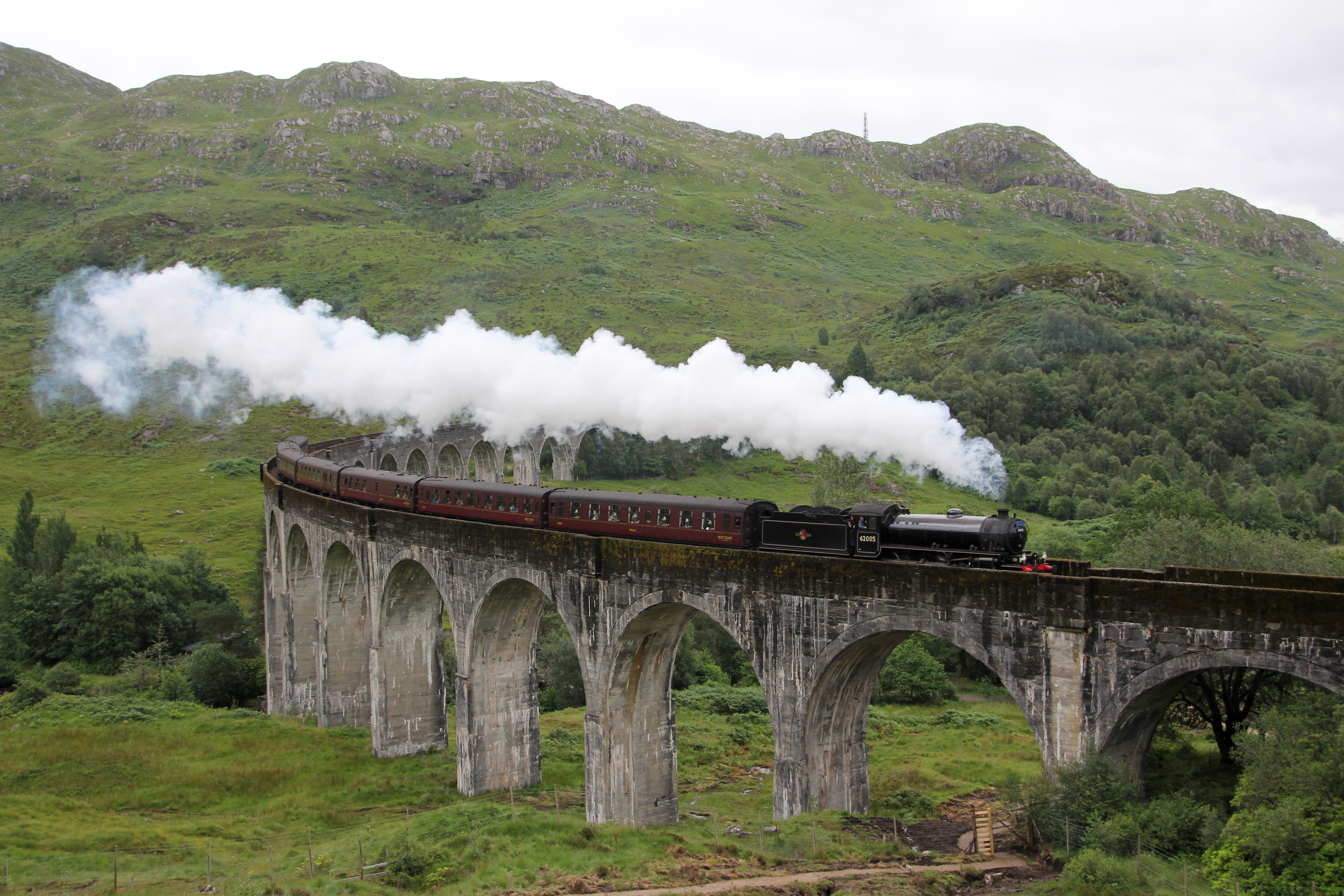 Day 4 of the Scottish Adventure sees me stood on a muddy, wet hill side near Glenfinnan Viaduct, awaiting for the Jacobite to come round the curve and into view. The pleasing sight of the train coming into view was one of the most impressive I have seen for years, an incredible sight to say the least. Providing power is LNER Thompson/peppercorn Class K1 62005 "Lord of the Isles". The train is running from Fort William - Mallaig along the West Highland Line, considered the most sceninc railway line in the UK. The viaduct is known for many as being used in the Harry Potter movies, which the Jacobite stock was also used in. Hills and mountains around the viaduct only add to the atmosphere of the area. The headcode is 2Y61 10:15 Fort William - Mallaig